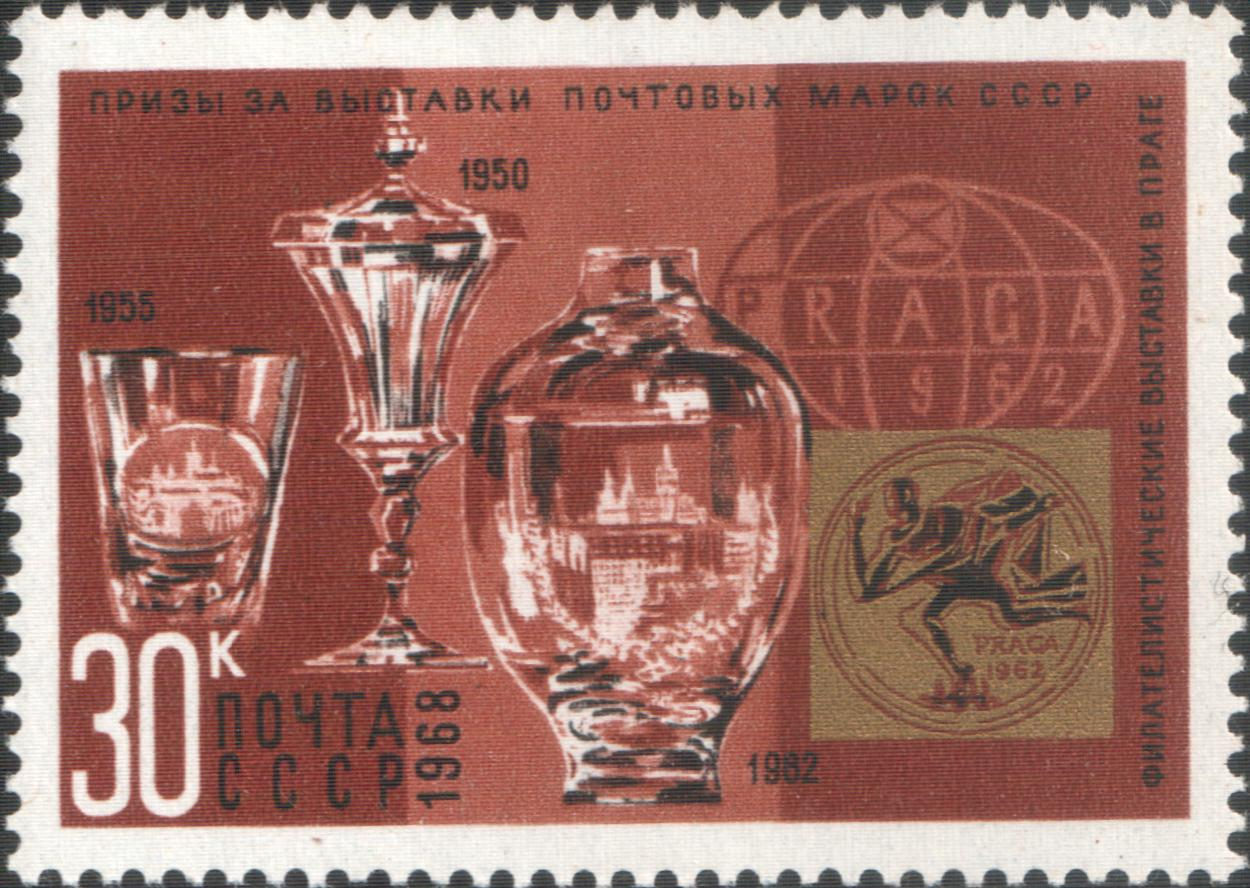 USSR stamp: Awards (Praga Exhibitions, Prague, Czechoslovakia, 1950, 1955, 1962). Series: Awards to Soviet Post Office at Foreign Stamp Exhibitions and Competitions